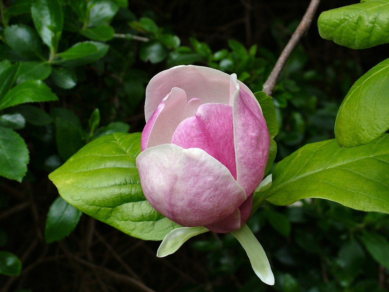 A Magnolia tree blossom.